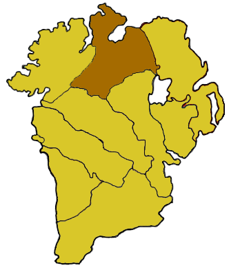 Catholic Diocese of Derry.